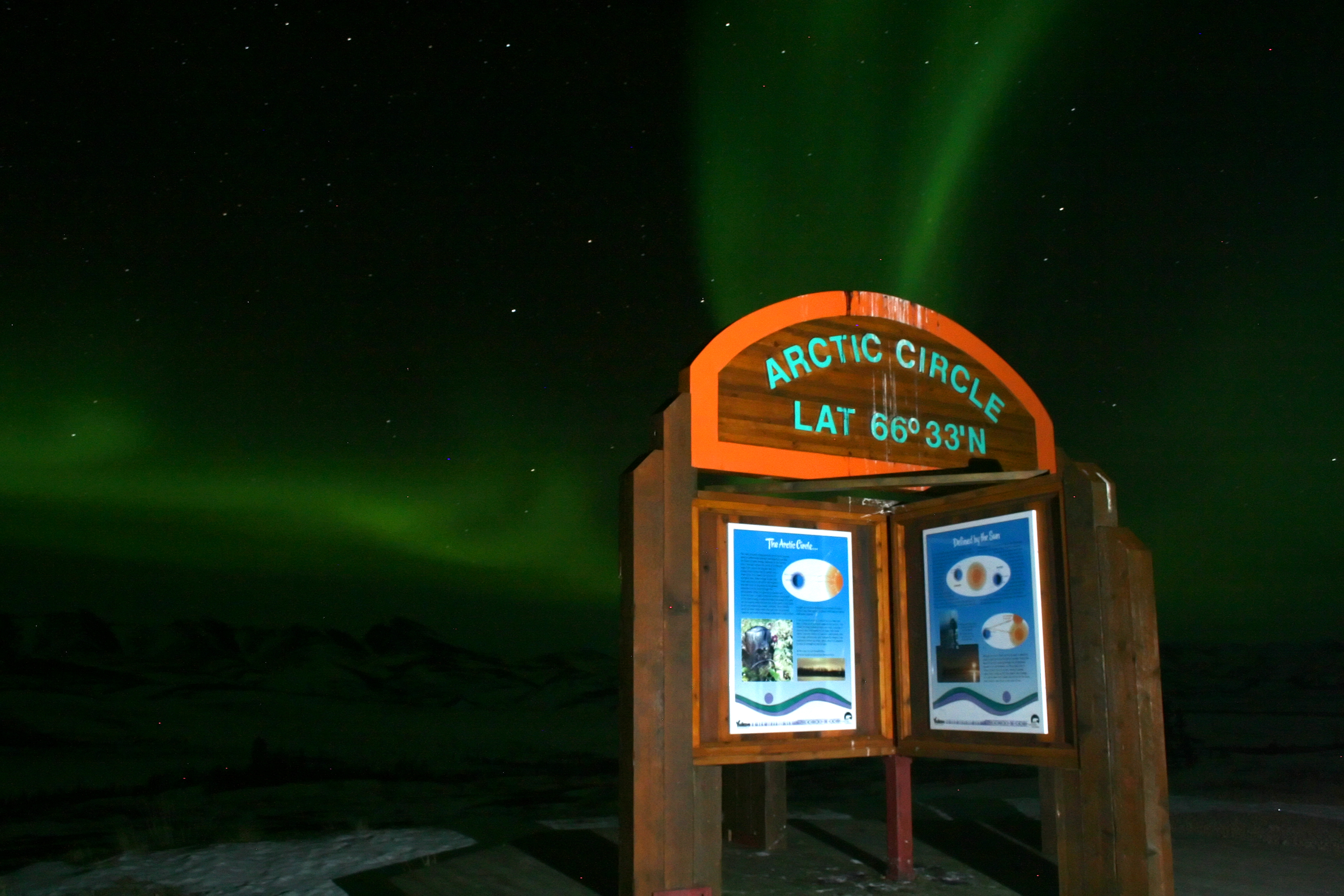 View of the Aurora Borealis (northern lights) at the Arctic Circle in Yukon, Northwest Territories.